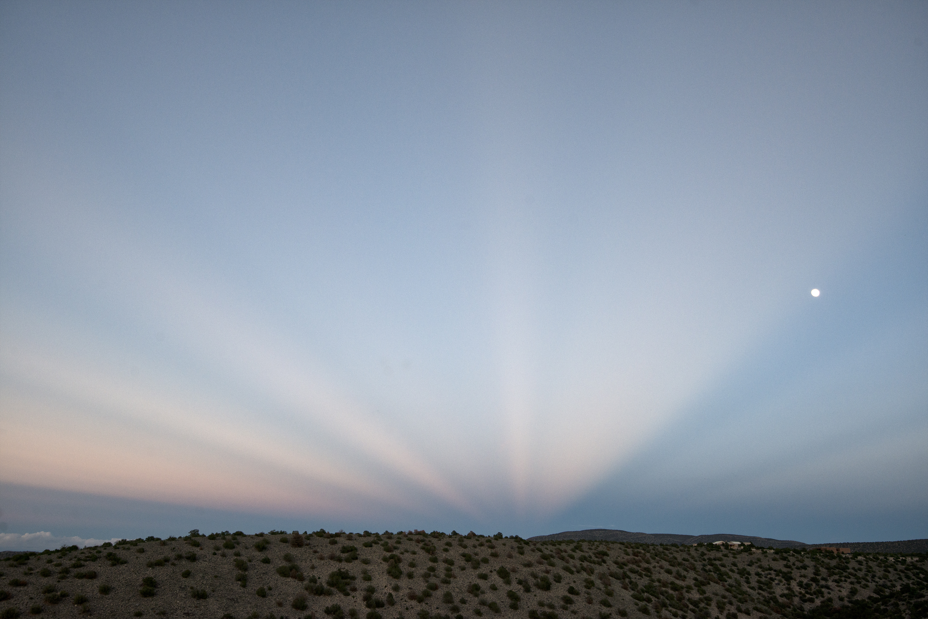 Anticrepuscular Rays